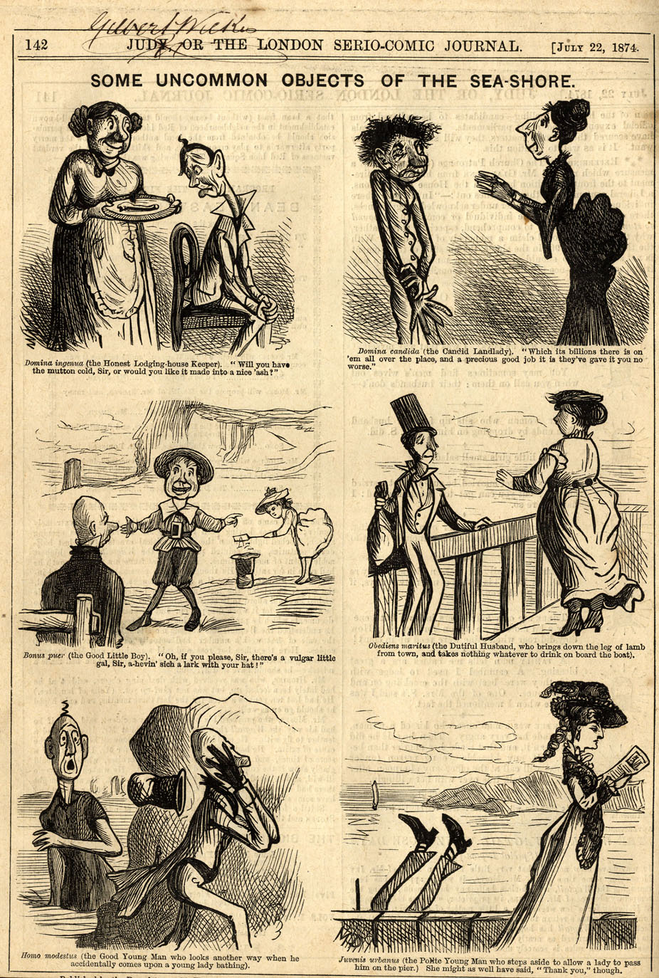 A page featuring Ally Sloper drawn (and probably written) by Mary Duval and published in Judy in the 1870's. For more details, see the title.